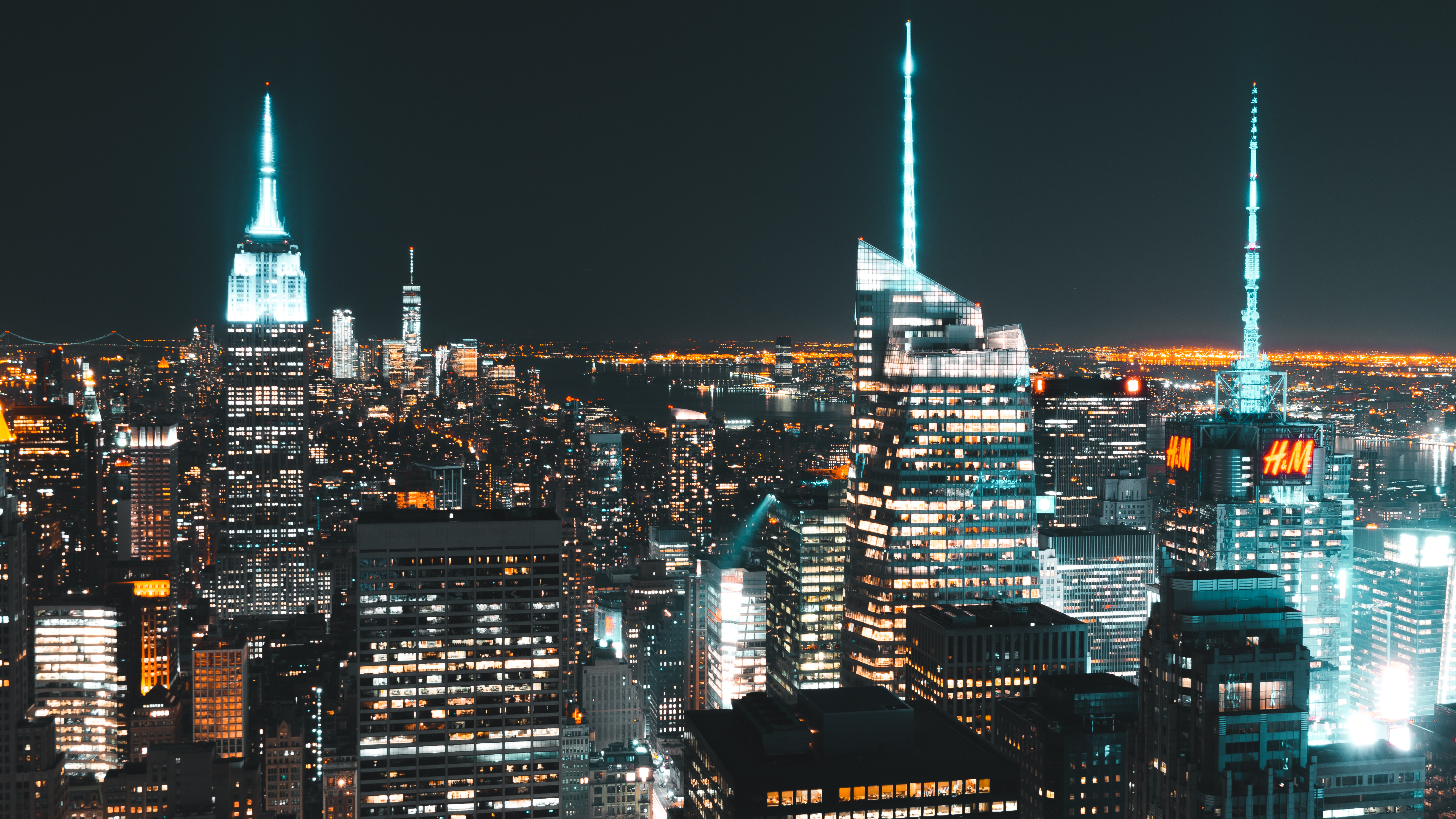 The skyline of Manhattan at night